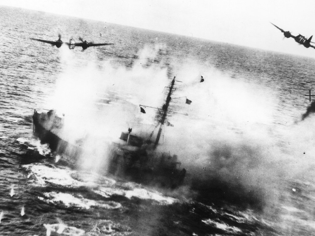 Bristol Beaufighters attack a ship, 1941.